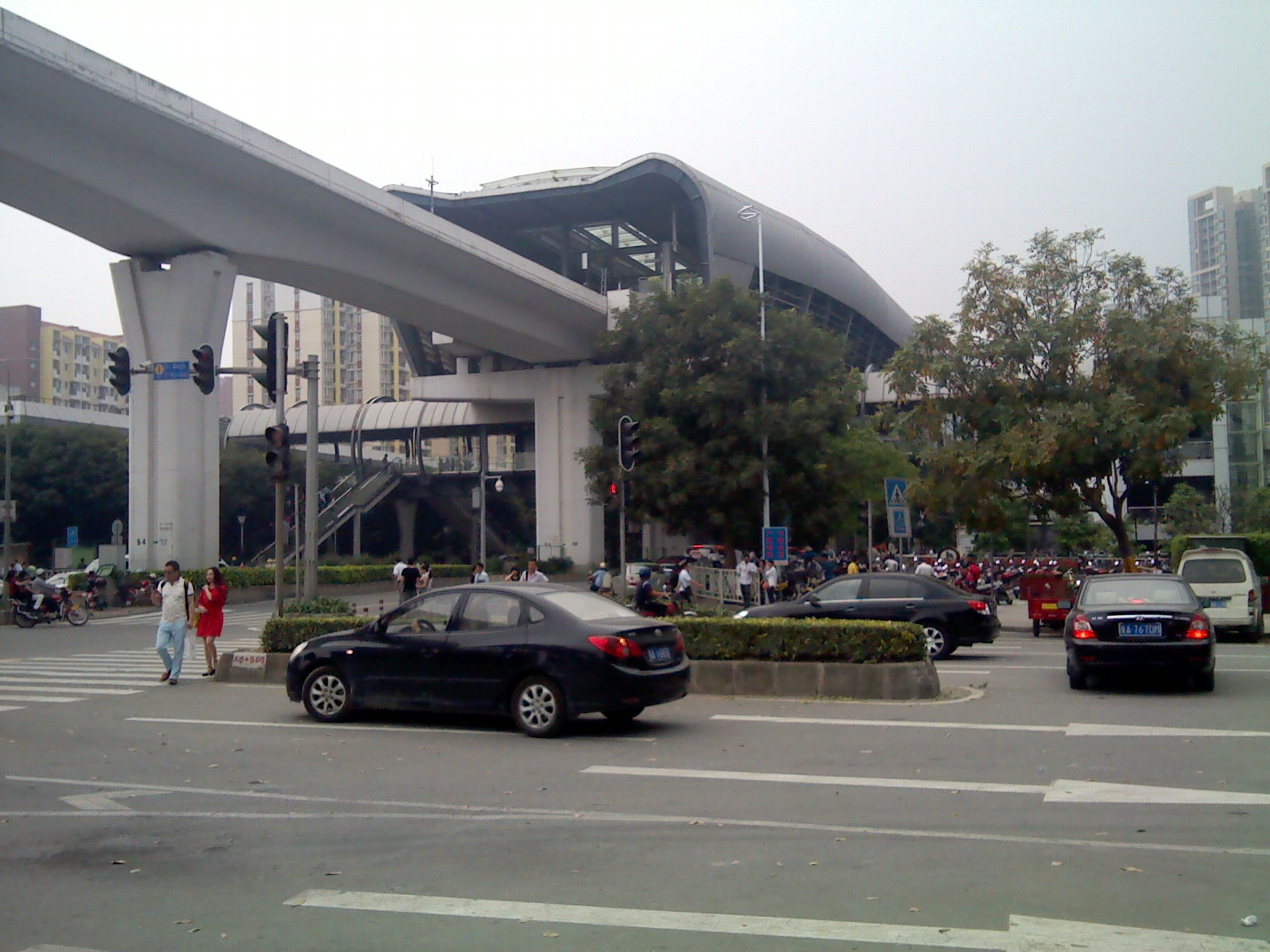 金洲站车站外观